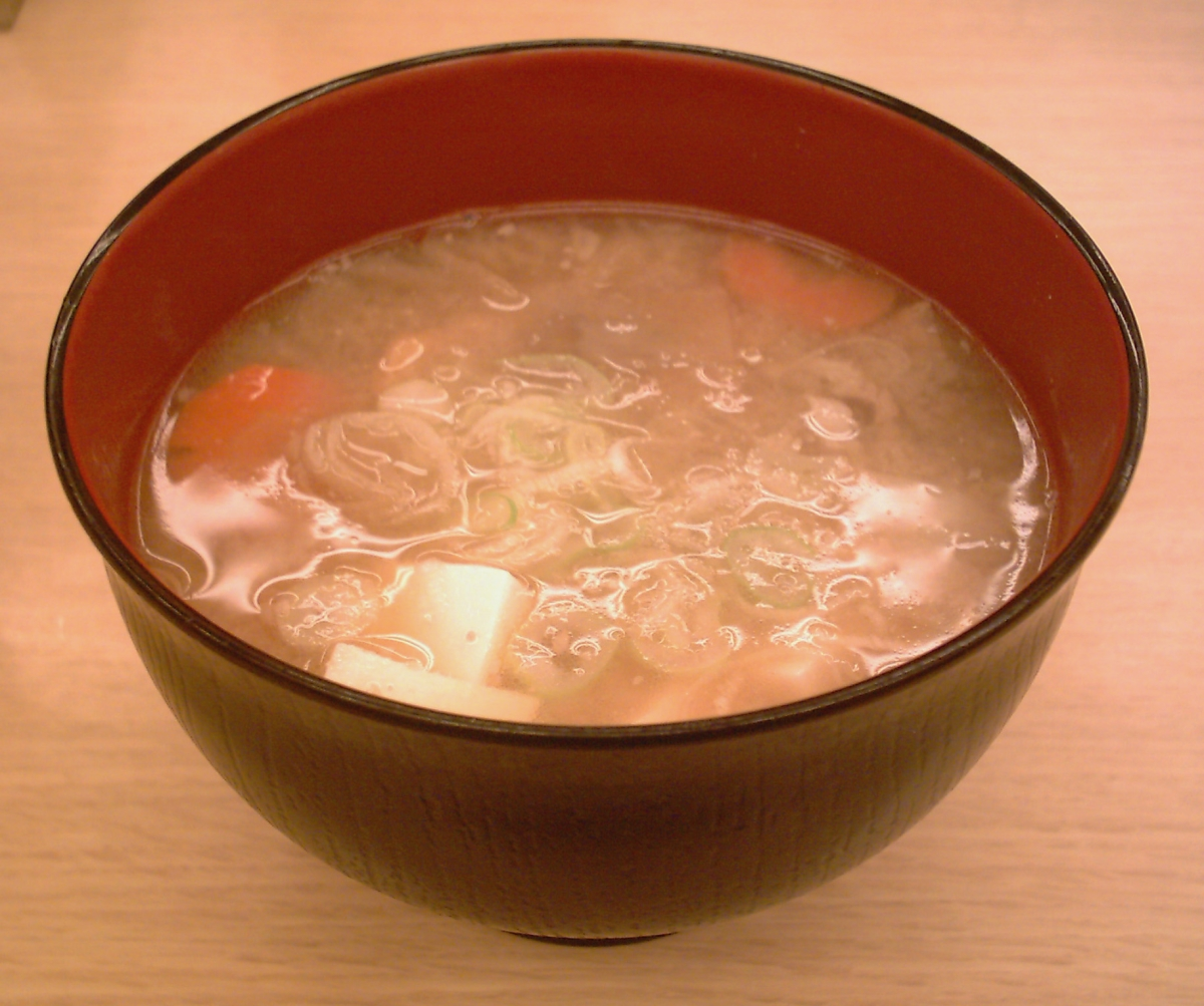 [Tonjiru]_MATSUYA_in Japan 松屋の豚汁 photography day, 2006/9/22 photography person kici